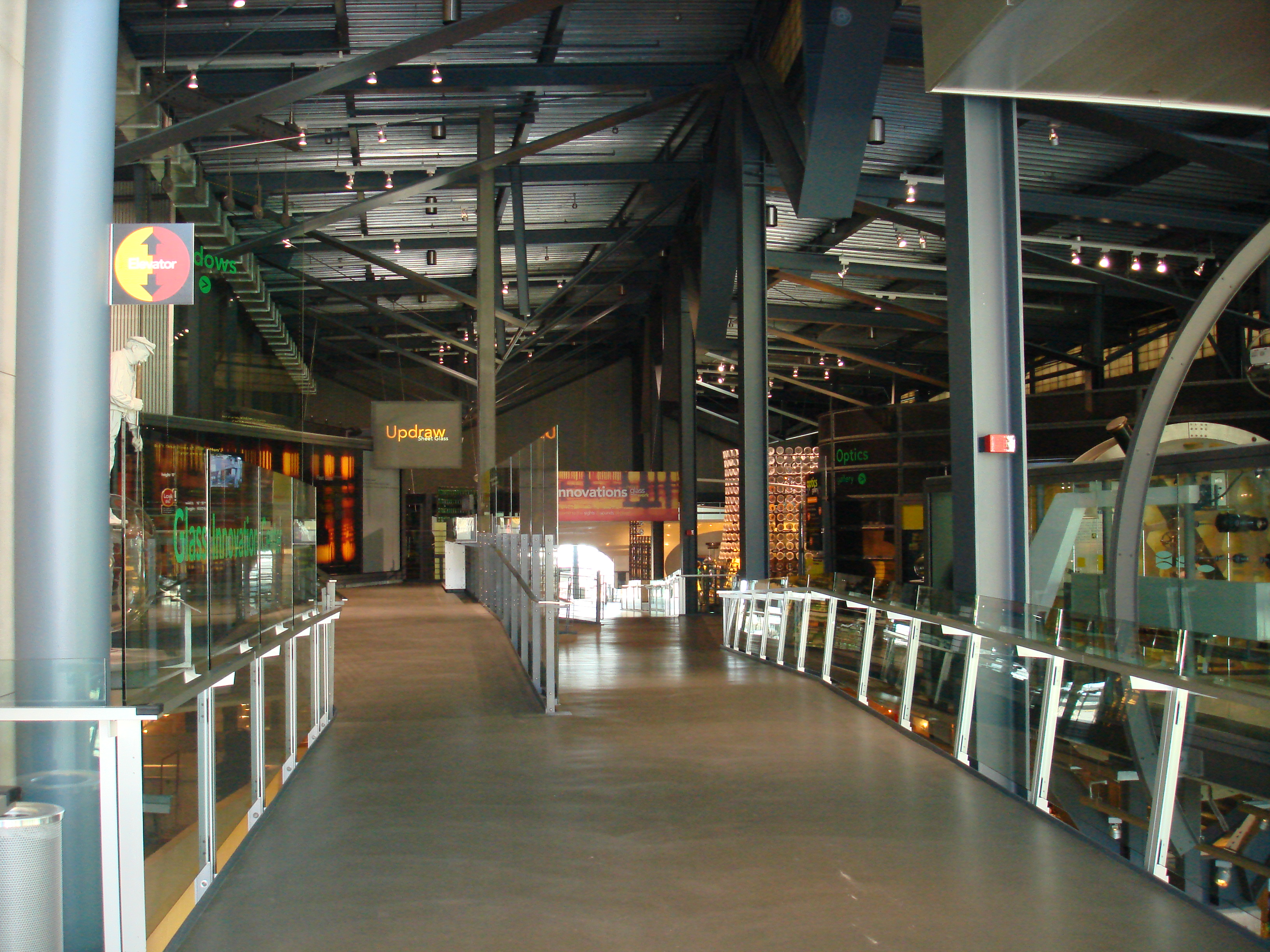 Corning Museum of Glass, in Corning, New York. Interior of the exhibition hall, upper level.